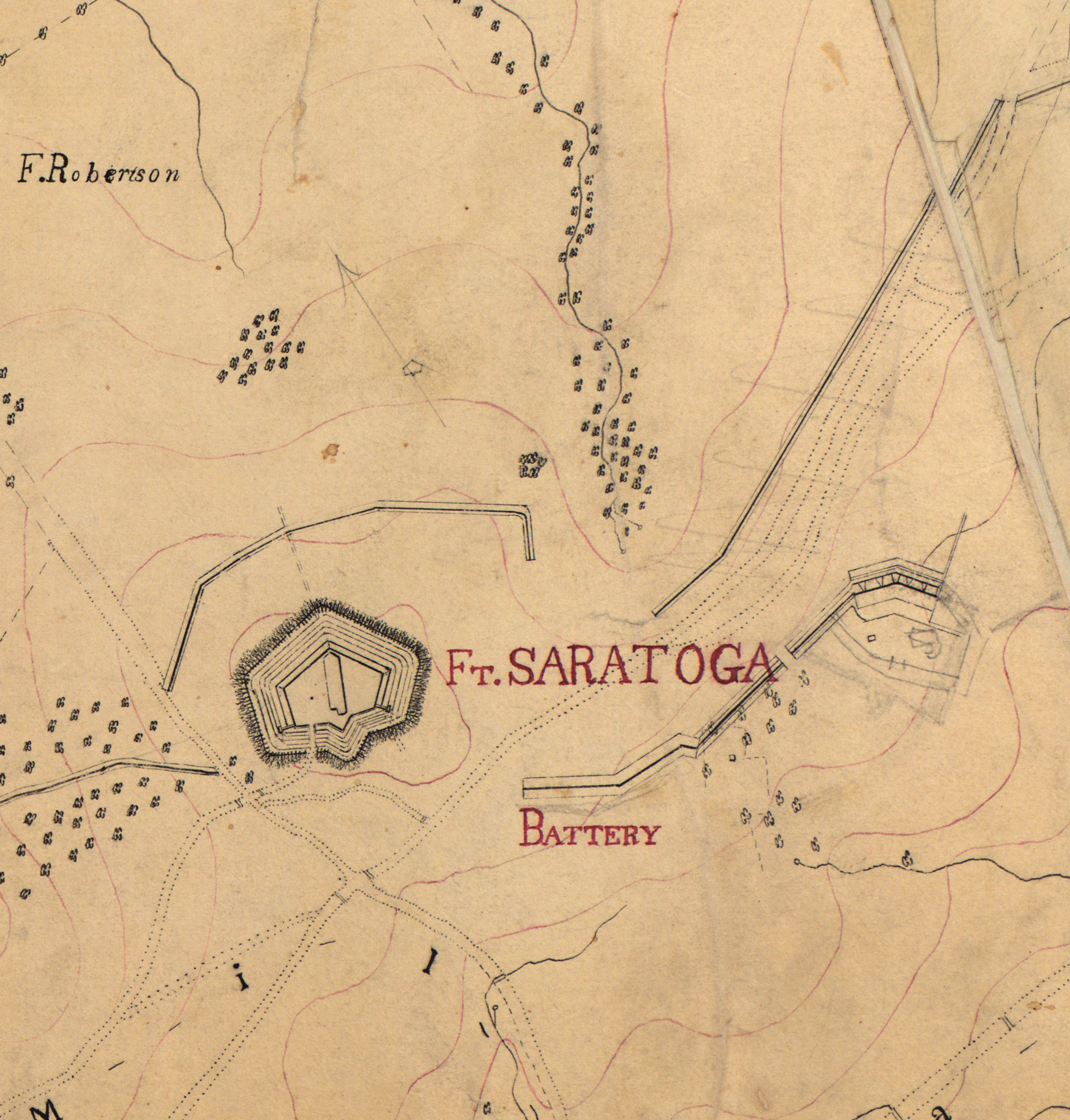 Detail from Topographical map, 1st Brigade, defenses north of Potomac, Washington, D.C. (East)